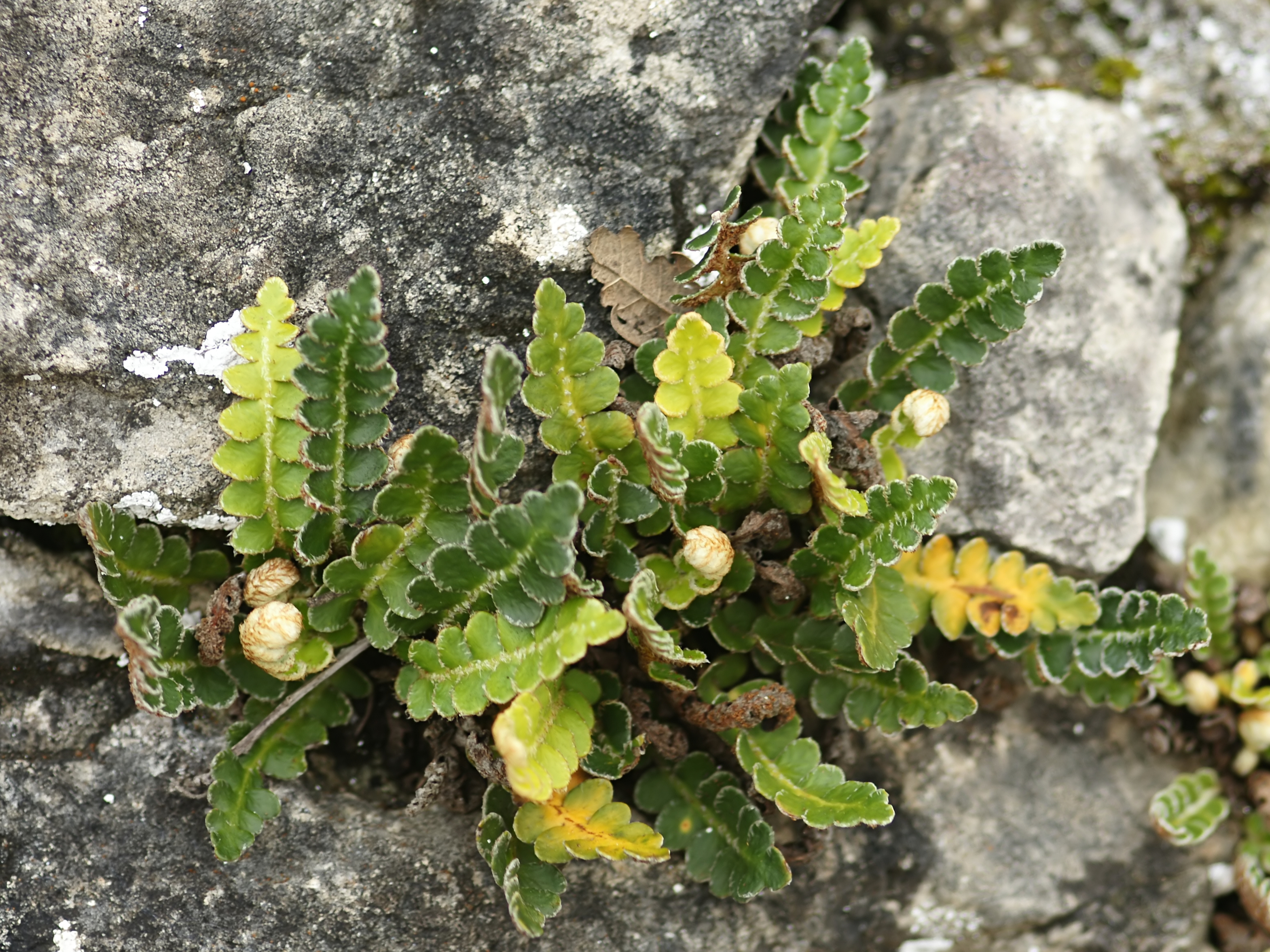 Rustyback Fern on the SS125 road near Dorgali, Sardinia, Italy